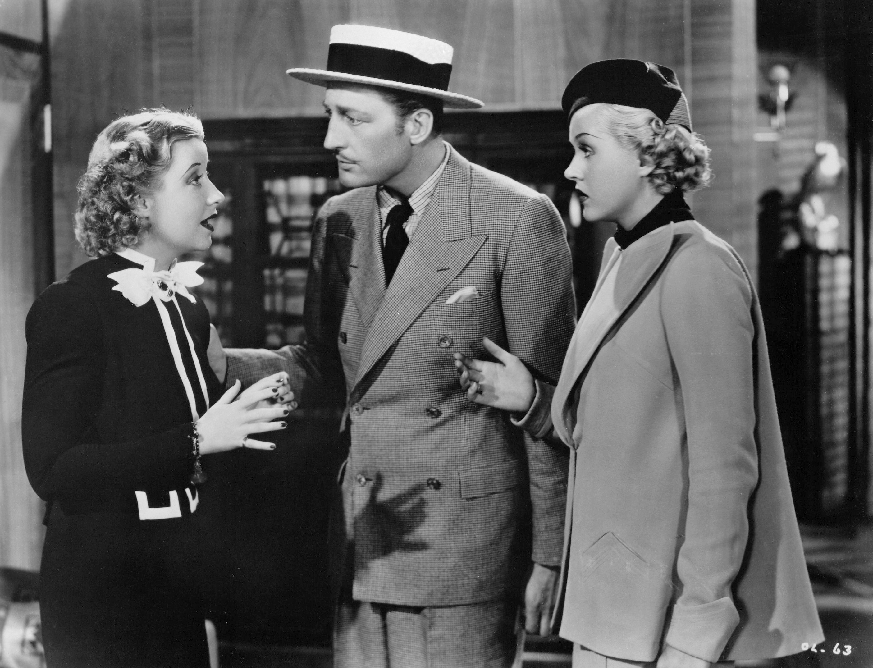 Promotional photograph for the 1935 film The Case of the Lucky Legs, featuring (from left) Genevieve Tobin as Della Street, Warren William as Perry Mason, and Patricia Ellis